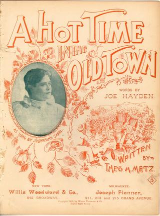 Cover page of the sheet music for 1896 edition of "There'll be a Hot Time in the Old Town Tonight."